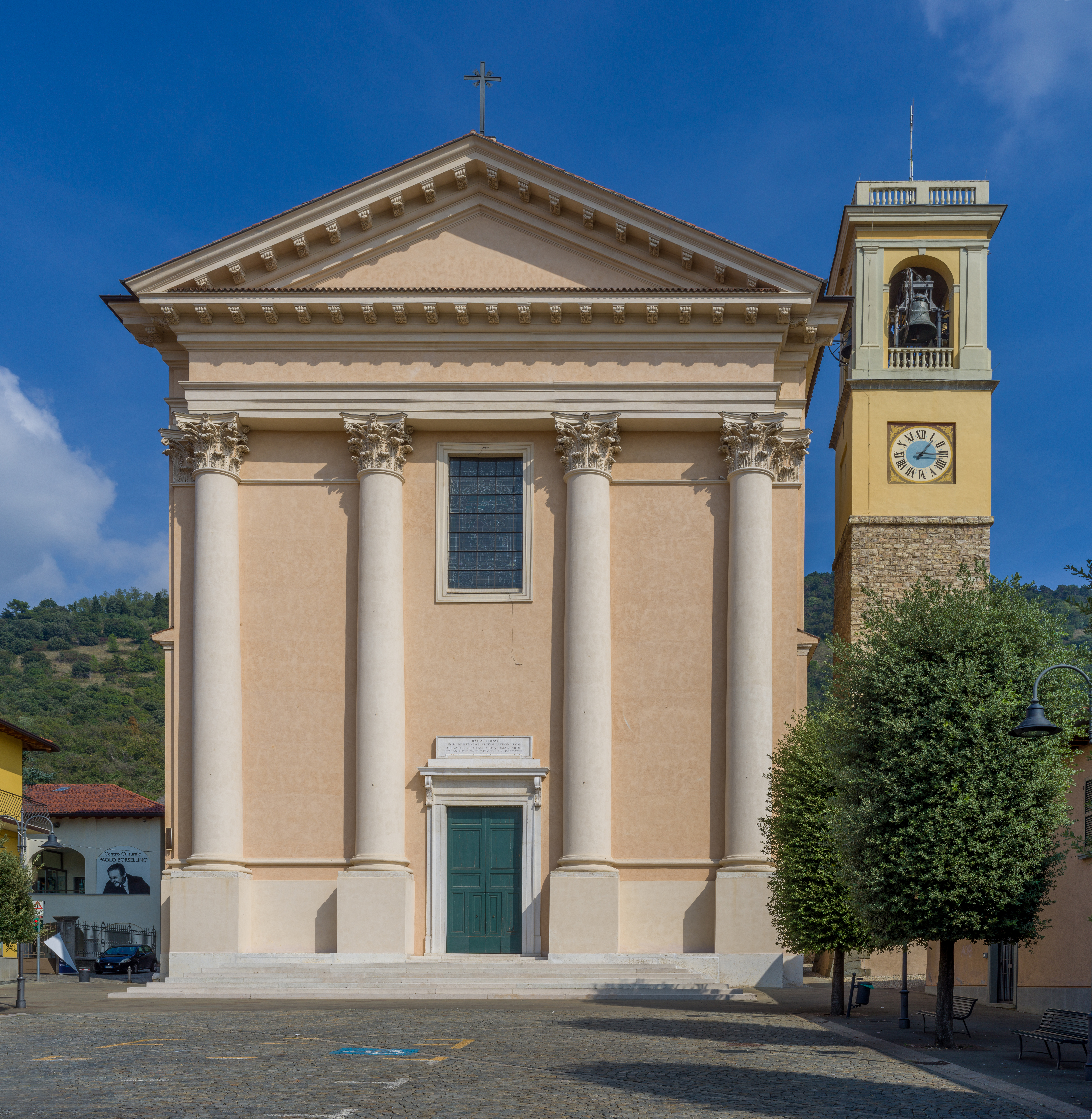 Parish church of Gervasius and Protasius of Cologne, Lombardy. This is a photo of a monument which is part of cultural heritage of Italy.